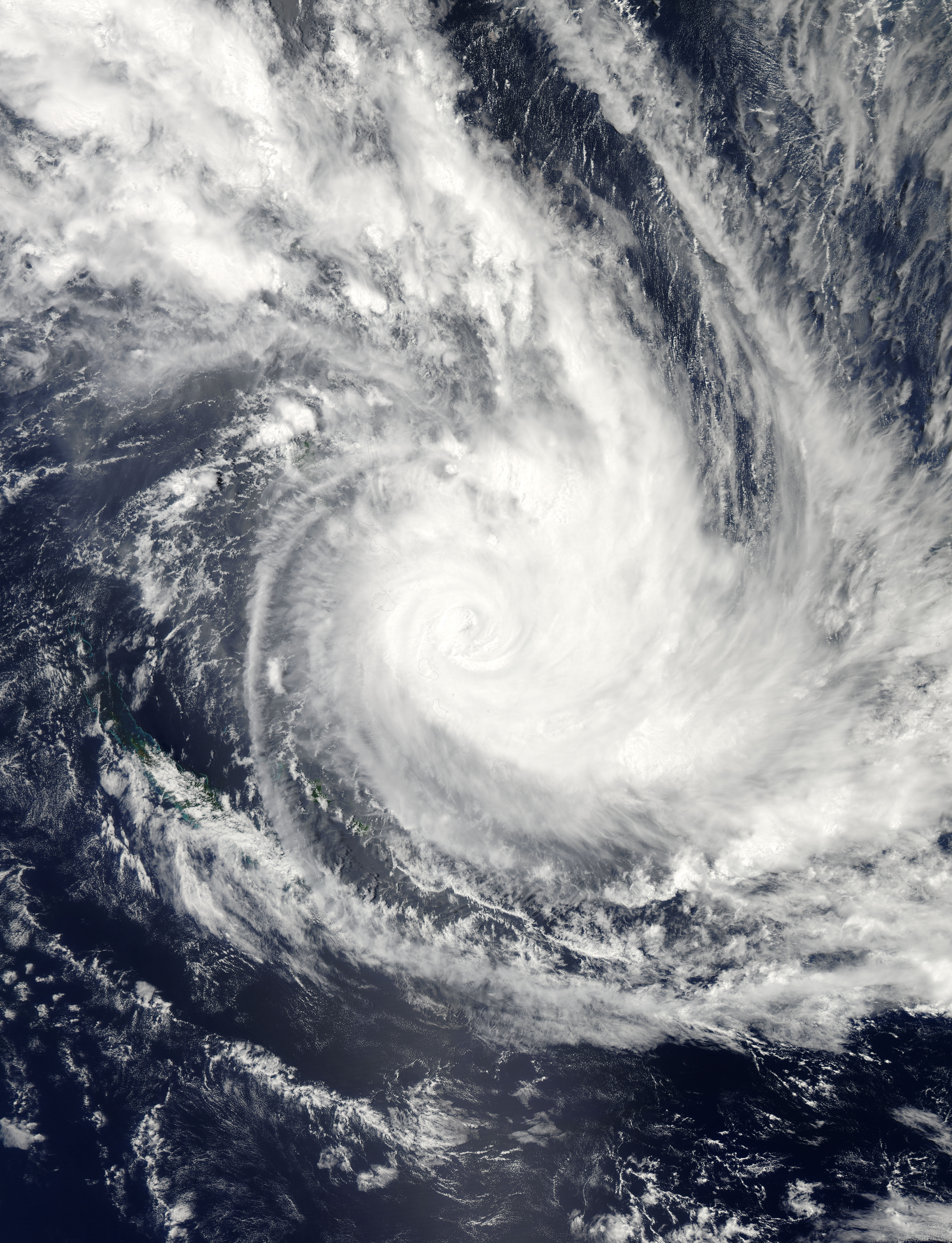 Tropical Cyclone Atu raged over the southern Pacific Ocean in late February 2011, stretching from New Caledonia to Fiji. The U.S. Navy’s Joint Typhoon Warning Center (JTWC) reported that, as of 8:00 p.m. local time on February 21, Atu was located roughly 115 nautical miles (215 kilometers) east-southeast of Port Vila, Vanuatu. The storm had maximum sustained winds of 100 knots (185 kilometers per hour) and gusts up to 125 knots (230 kilometers per hour). The Moderate Resolution Imaging Spectroradiometer (MODIS) on NASA’s Aqua satellite captured this natural-color image around 11:30 a.m. local time on February 21, 2011. The center of the storm appears just east of the Vanuatu archipelago. The JTWC forecast that Atu would accelerate roughly toward the southeast, and would probably intensify slightly over the next 24 hours. After about 36 hours, however, Atu was expected to quickly weaken, thanks to increasing vertical wind shear and lower sea surface temperatures.